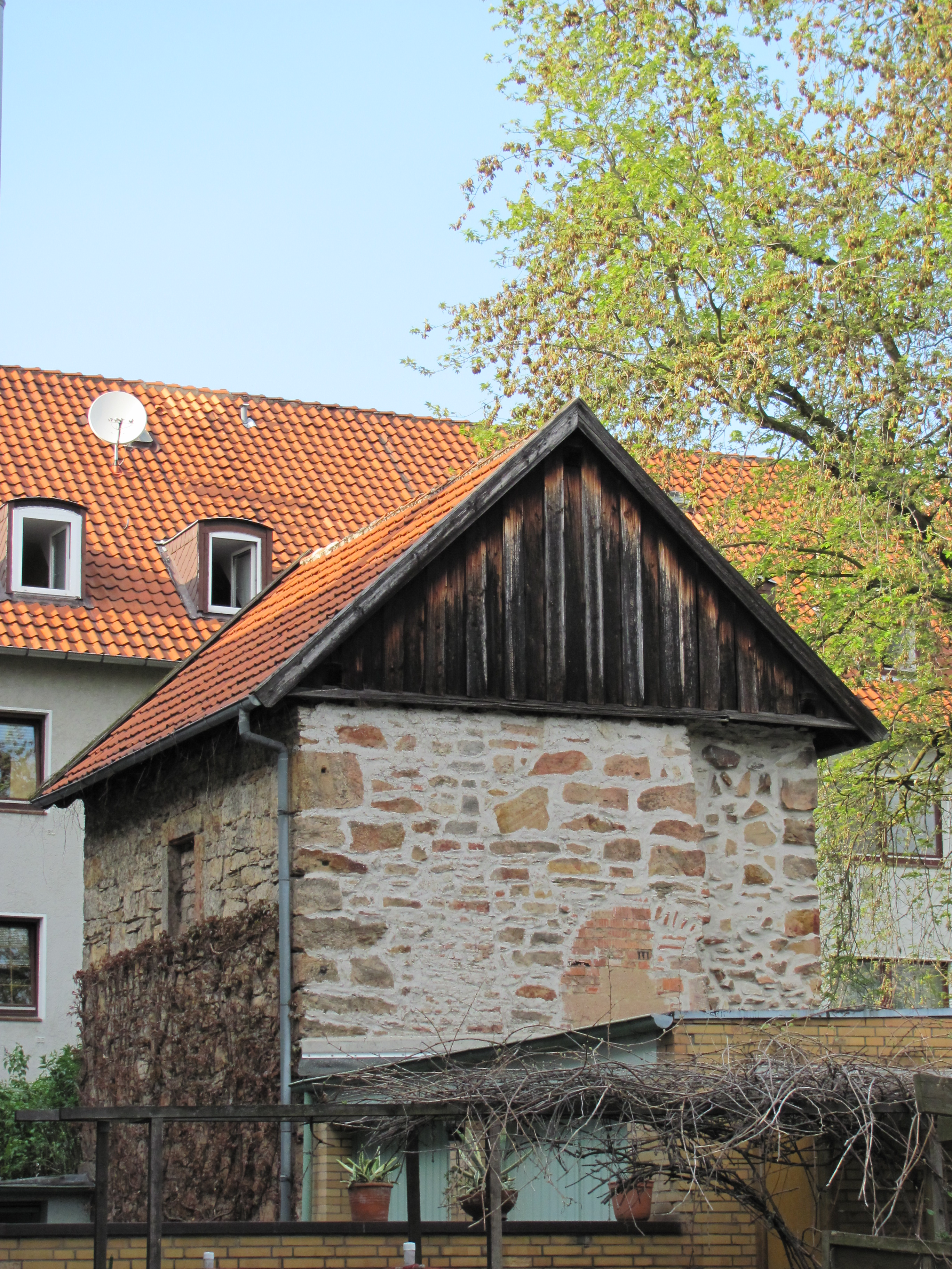 Old Store House (15th century), Hildesheim, Germany